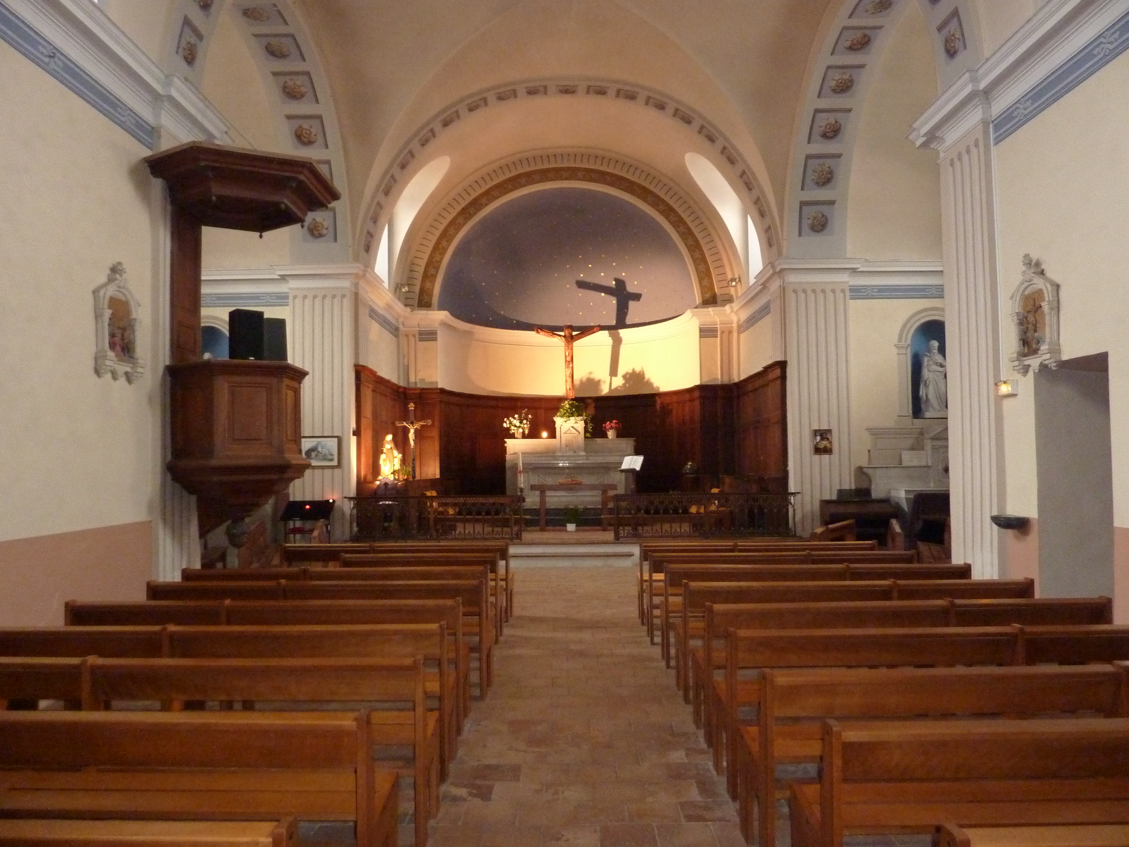 Interior of the catholic church of Herbeys